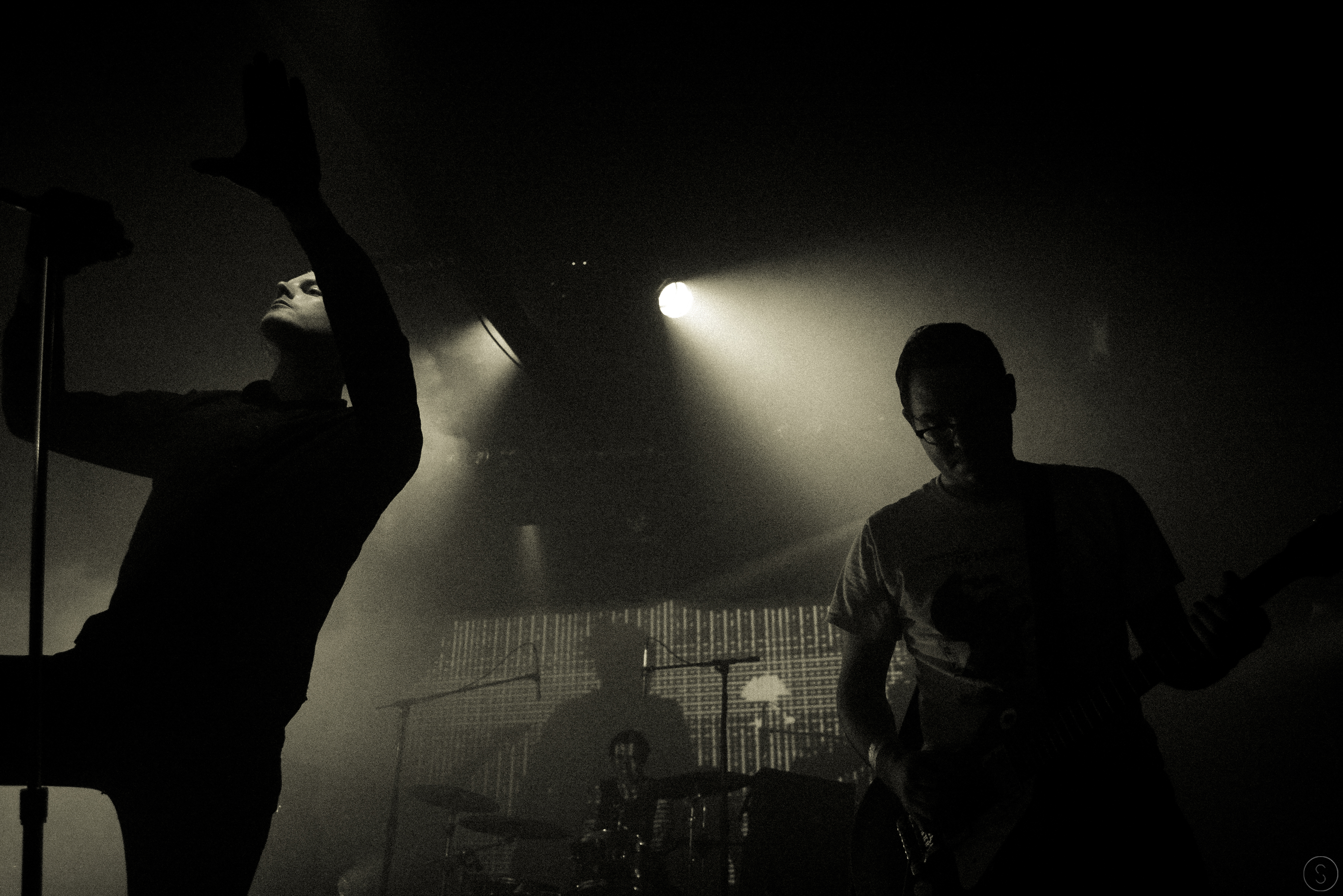 Deafheaven performing live in August 2013. Vocalist George Clarke and guitarist Kerry McCoy in the foreground, drummer Daniel Tracy in the background.